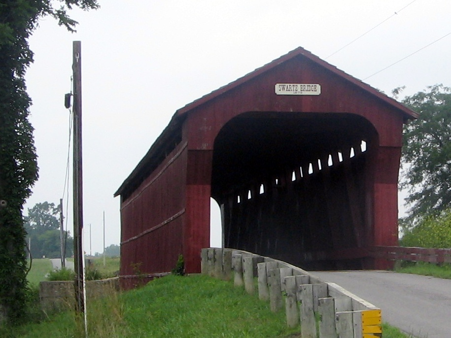 Swartz Covered Bridge, which carries County Road 130 over The Sandusky River southeast of the city of Upper Sandusky in Antrim Township, Wyandot County, Ohio, United States. Built in 1880, it is listed on the National Register of Historic Places.